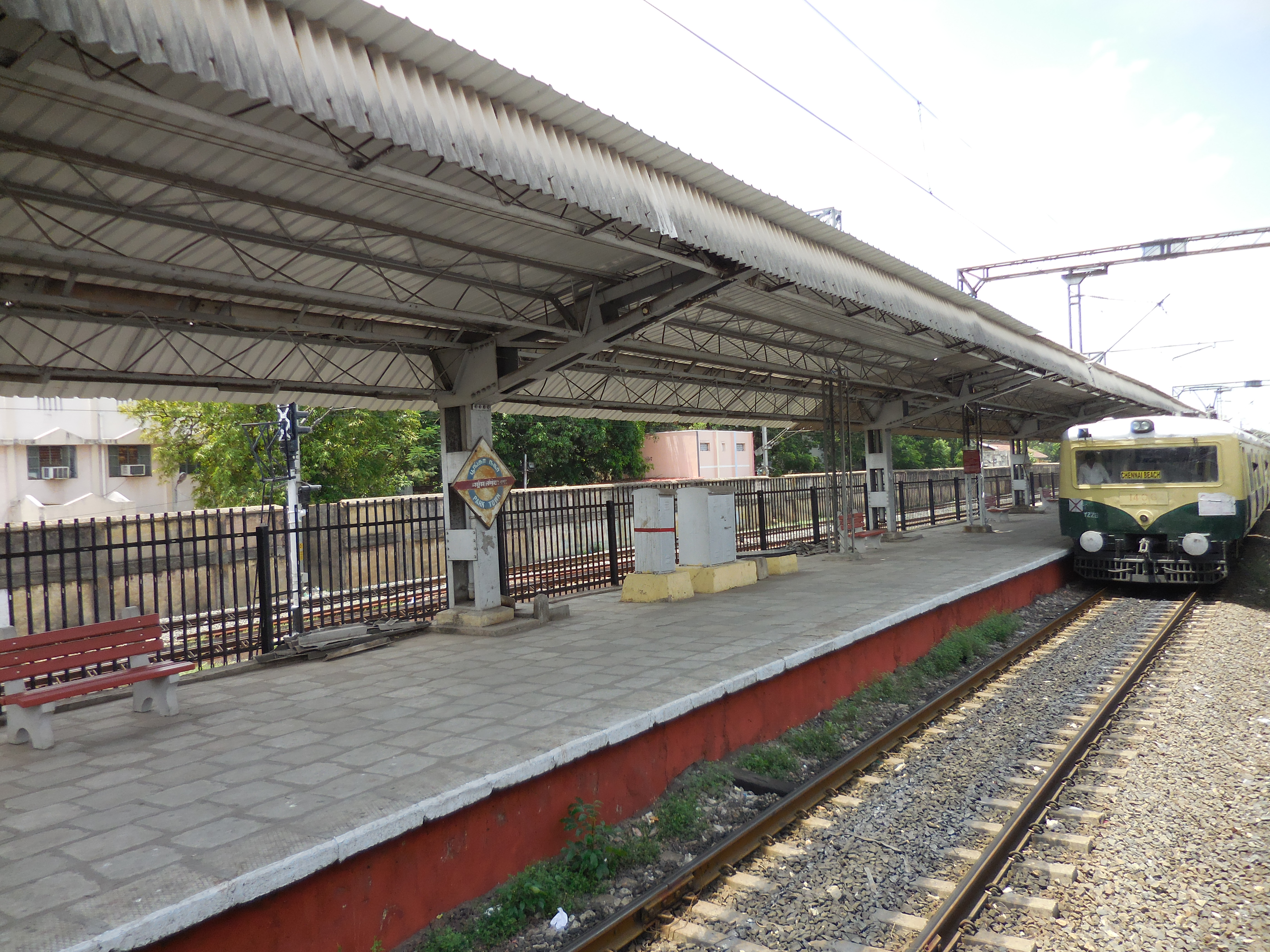 Eastern view of Chennai Park Town MRTS railway station, taken on 15 July 2014, afternoon.